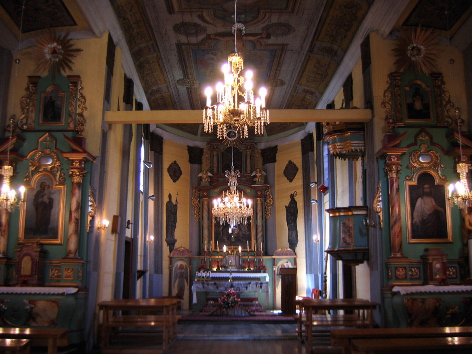 St. Michael's Church, Ropa, Poland